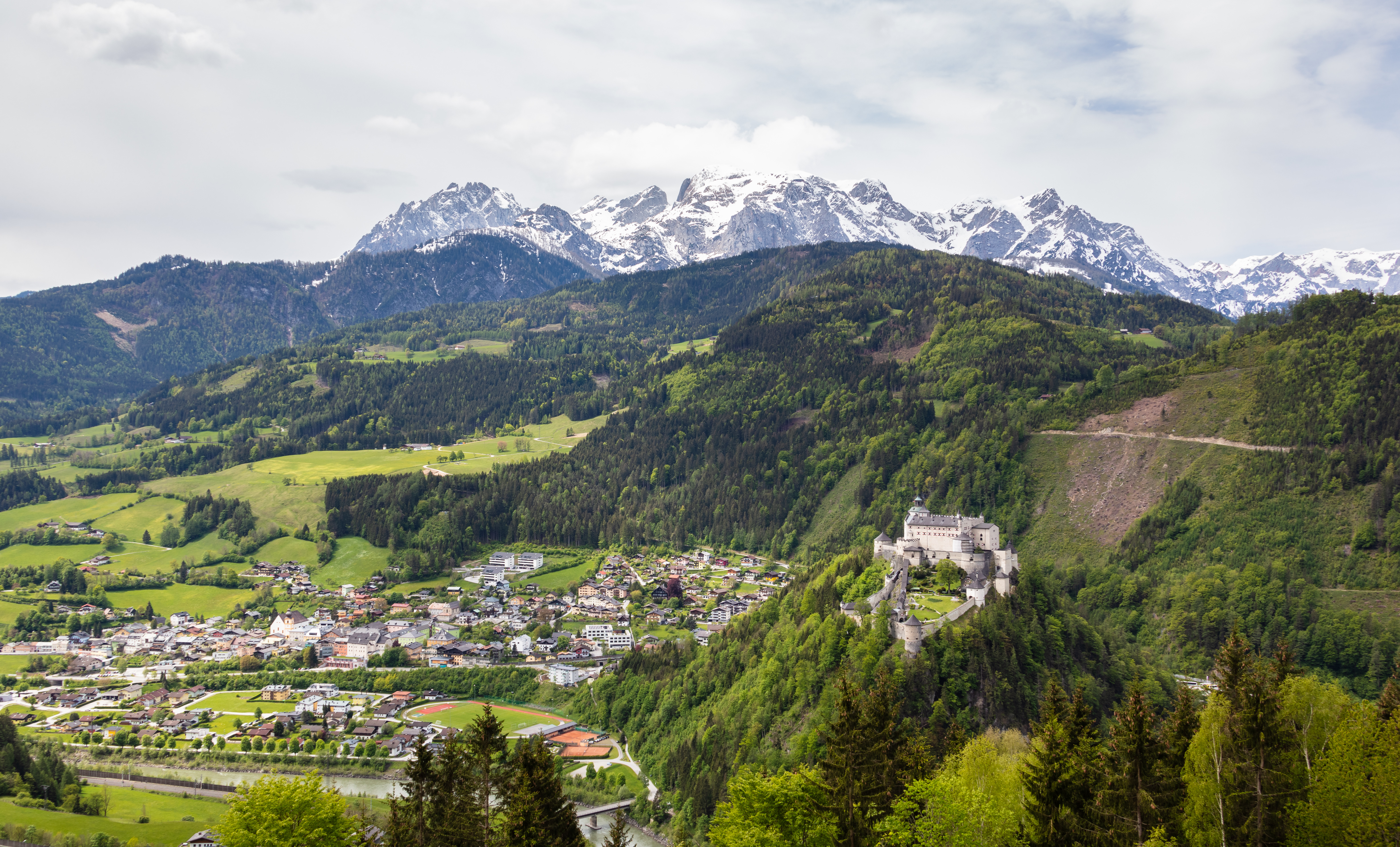 View of Werfen, Austria